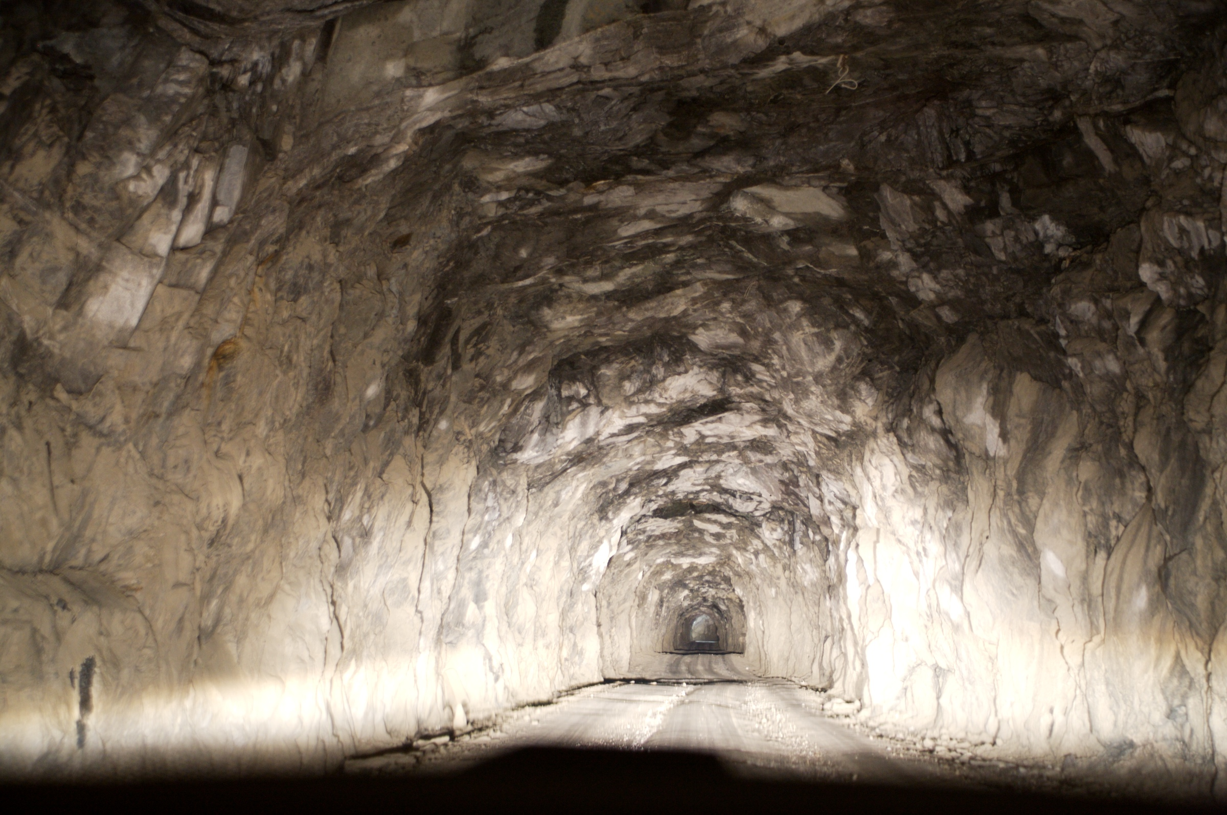 Tunnel in Jordalen, Voss. Honeymoon in Norway, July/August 2008 Honeymoon in Norway, July/August 2008